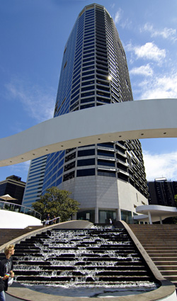 Riverside Centre, Brisbane (1983-86)